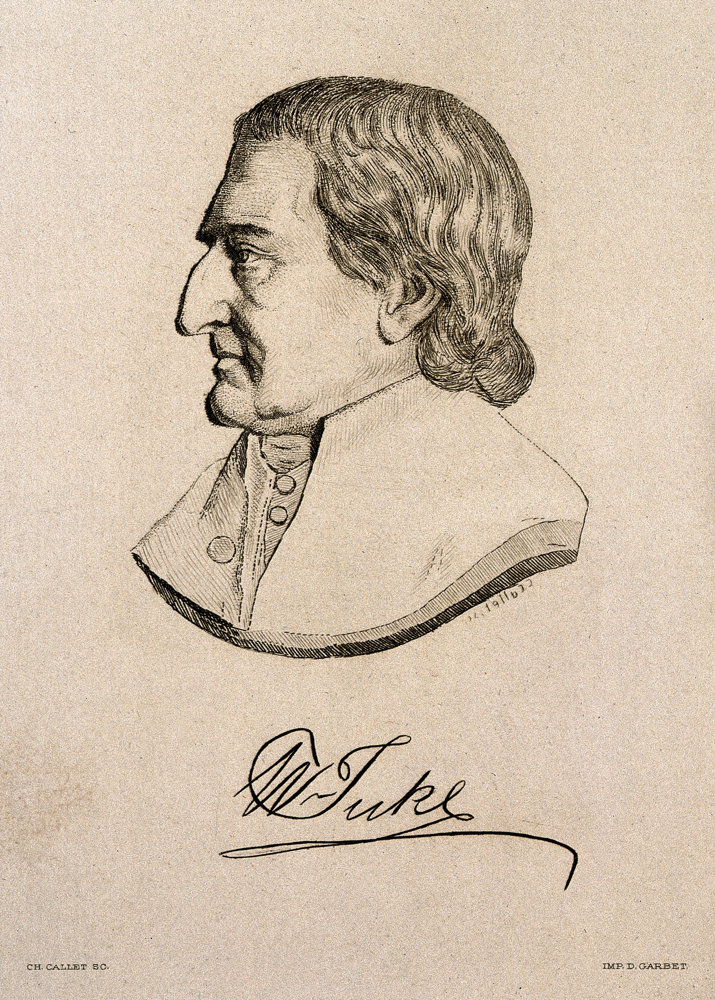 William Tuke. Etching by C. Callet. Iconographic Collections Keywords: portrait prints; William Tuke; etchings